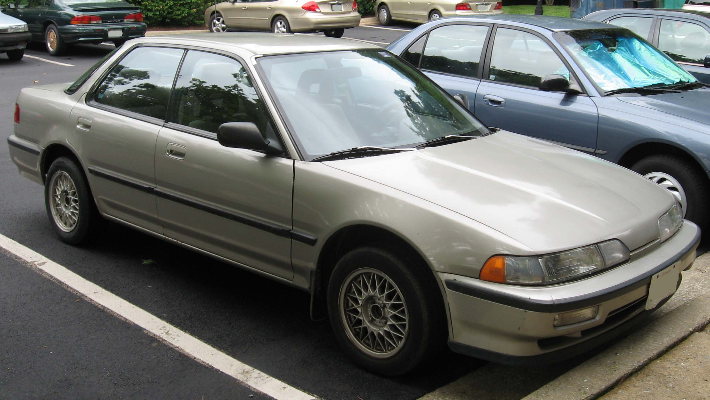 1990-1993 Acura Integra photographed in USA.